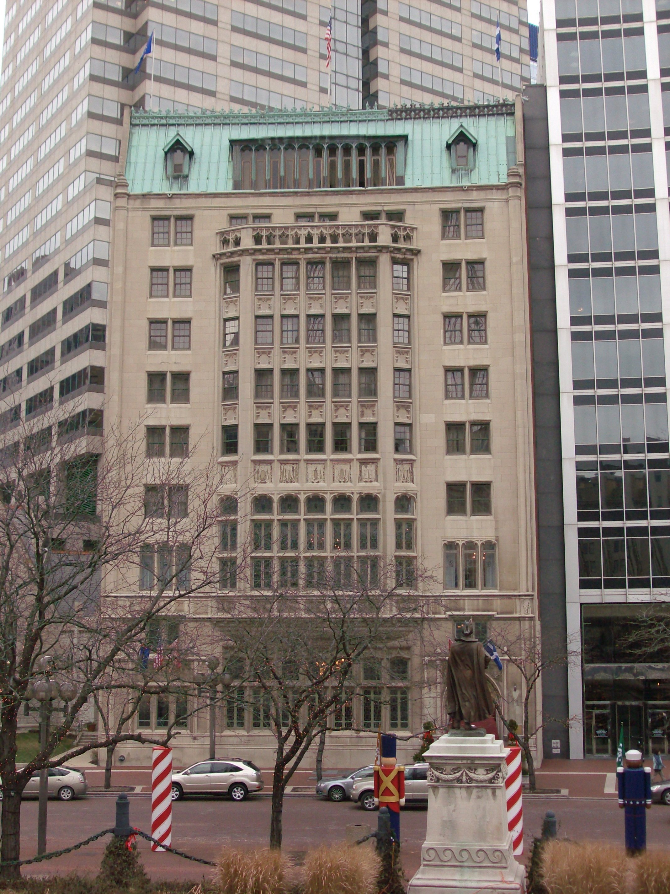 121 Monument Circle, Indianapolis, IN 46204-2994 (317) 767-1361